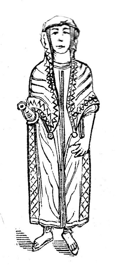 Illustration from "Illustrerad verldshistoria utgifven av E. Wallis. volume II": A vestal.